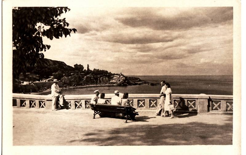 USSR Post Card circa 1950-s, Odessa, Arkadia resort